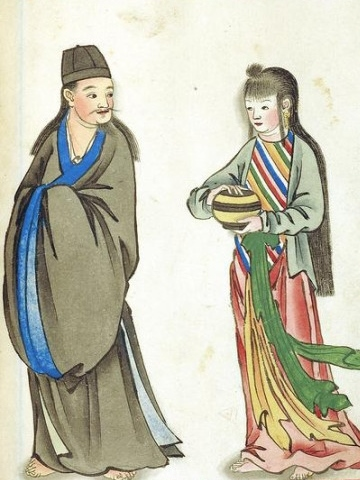 Portraits of general Ngô-cảnh-Hoàn and his wife Phan-thị-Thuấn.